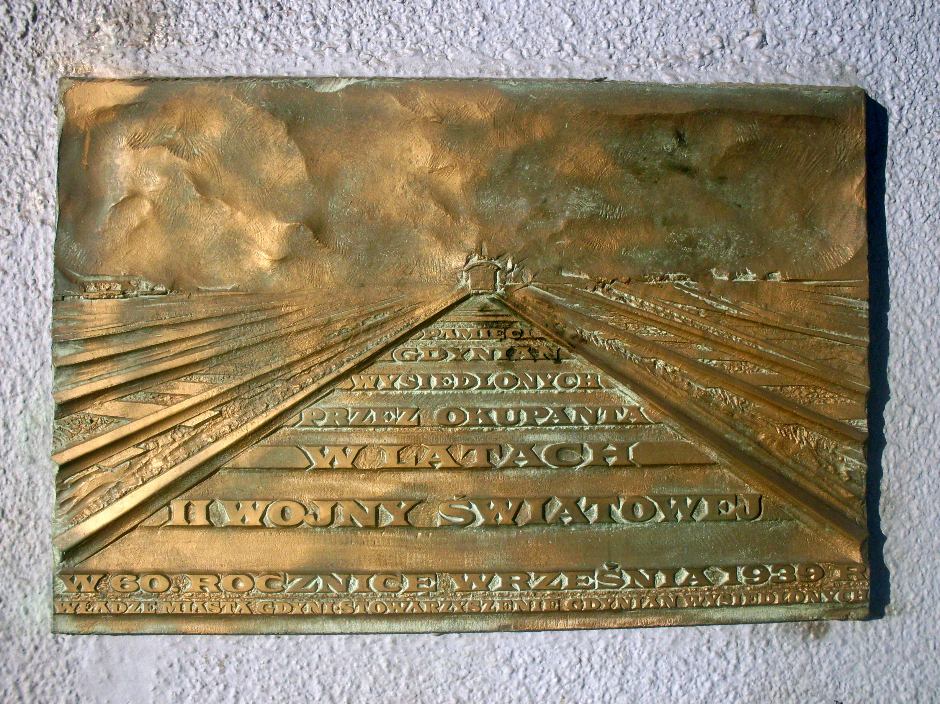 Plaque commemorating the expulsion of Gdynia citizens during the German war occupation. Placed at Gdynia Główna train station.